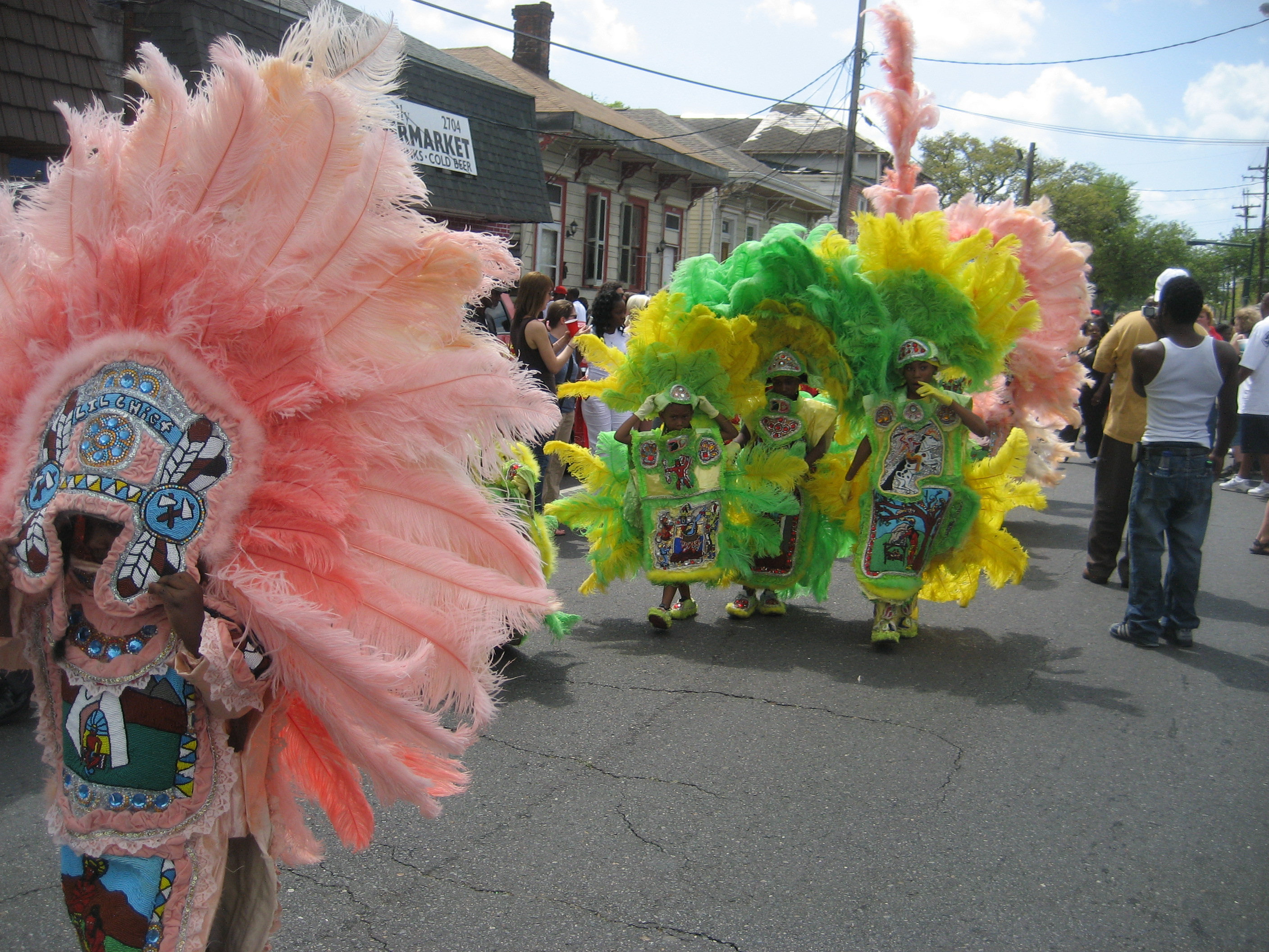 New Orleans: Mardi Gras Indians at the Uptown "Super Sunday" celebration, LaSalle Street near Washington Avenue.